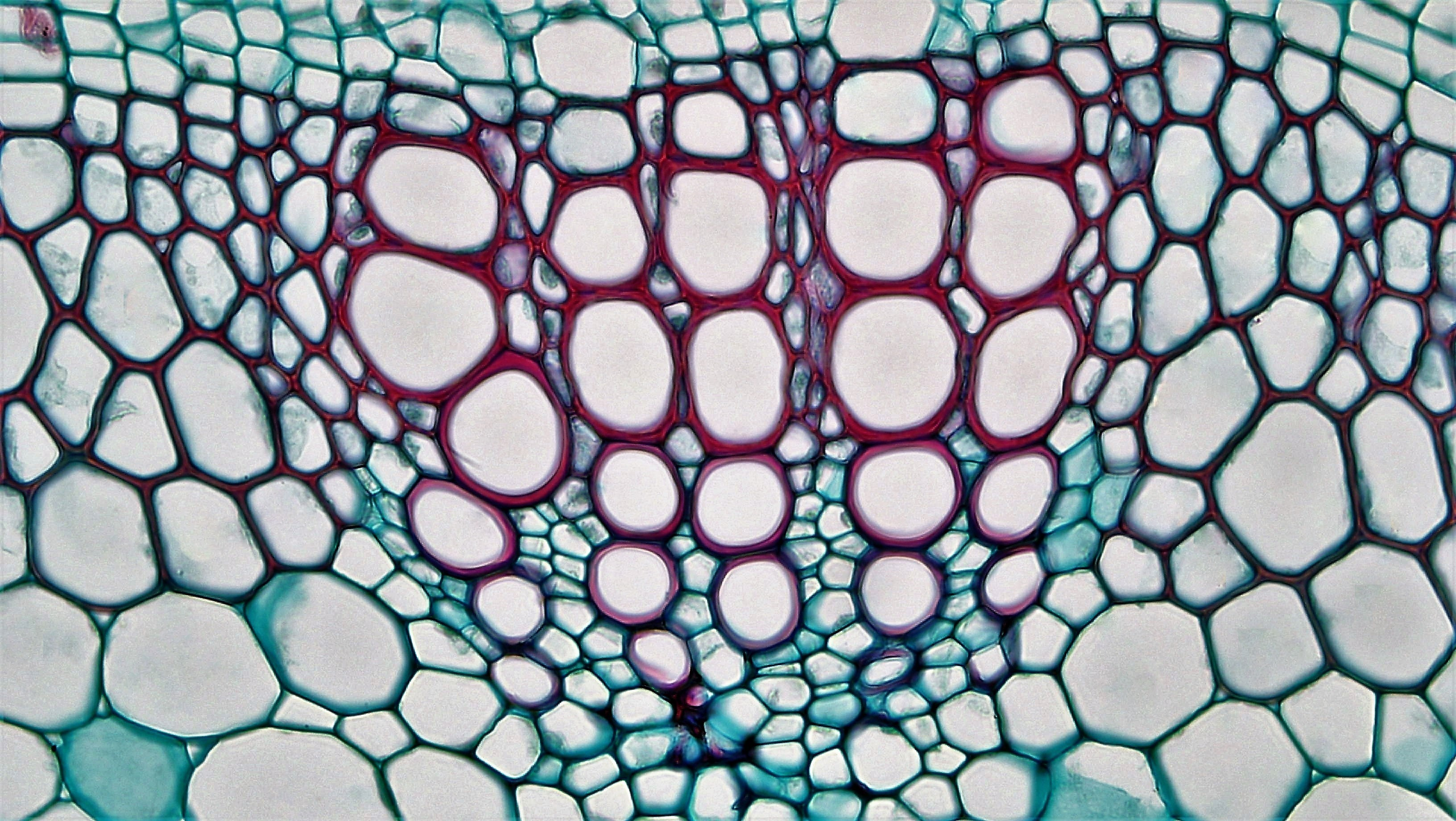 cross section: Younger Trifolium stem common name: Clover magnification: 400x Like most herbaceous dicots, Trifolium dies at the end of the growing season and consequently capable of limited amounts of secondary growth Within the stele the vascular bundles are arranged in a ring and separated from each other by medullary rays of parenchyma cells. The collaterally arranged vascular bundles are almost entirely primary phloem and xylem. Each bundle consists of a large outer supportive cap of sclerenchyma fibers (phloem fiber cap), a deeper layer of primary phloem with well-defined sieve tubes and companion cells, and a deepest layer of primary xylem. In between the xylem and phloem, a narrow band of cambium may be seen. In some preparations, the highly lignified cells walls of xylem and mature sclerenchyma are stained red orange. These cells are dead at maturity and can also be distinguished by a heavy cell wall and absence of cytoplasm. The center of the stem is occupied by a large pith of parenchyma cells that contain numerous starch storing amyloplasts.